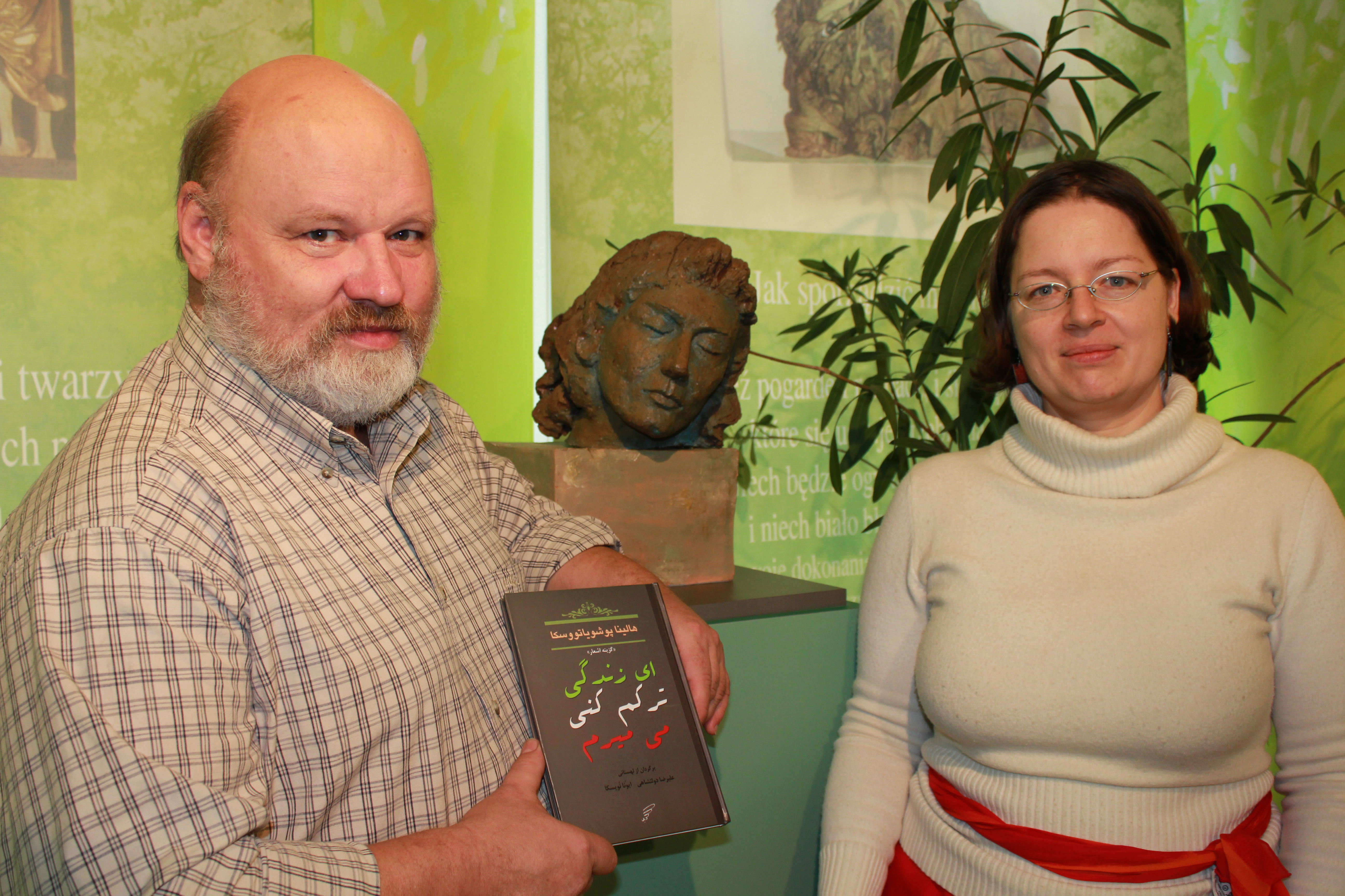 Ivonna Nowicka is presenting the Persian translation of Halina Poświatowska's poems into Persian done by herself and Alireza Doulatshahi to the poet's brother and museum-keeper at the Poetry House - Museum of Halina Poświatowska (Domu Poezji – Muzeum Haliny Poświatowskiej) in the city of Częstochowa, Poland, a short time after the book had been published in Iran in 2010.